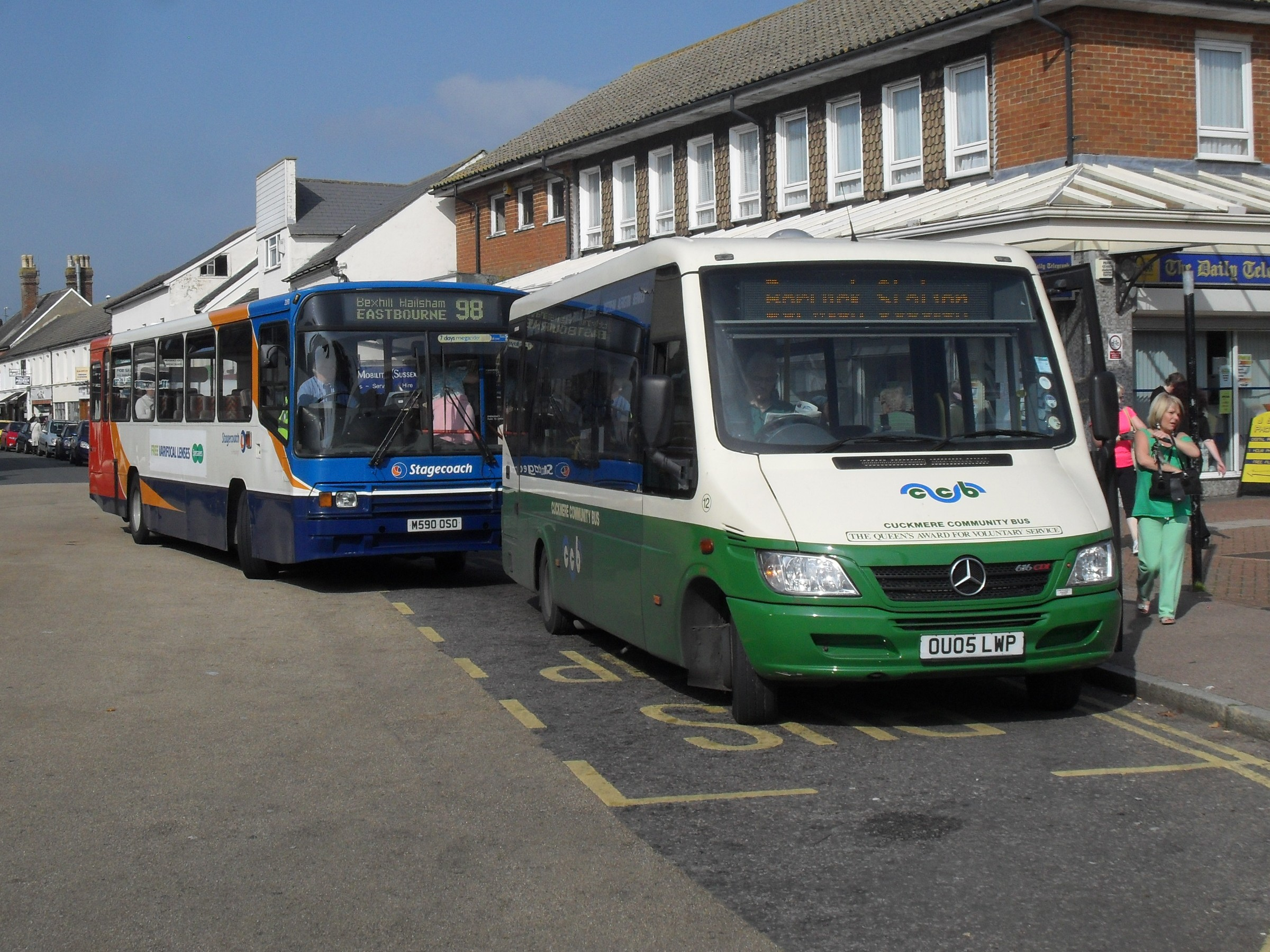 See the next pix in this photo set for these two buses individually, and details about them. Taken on 8th October 2010.